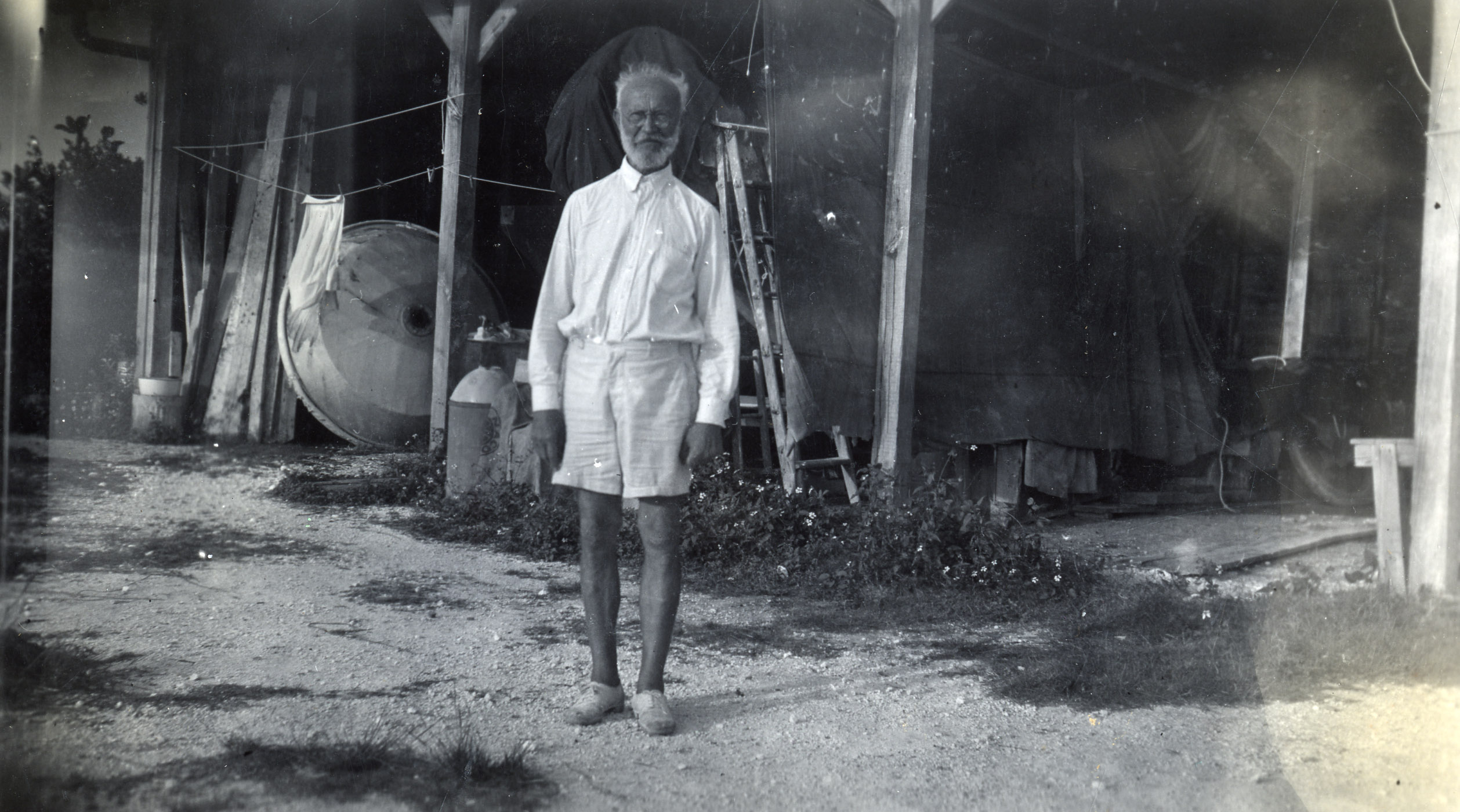 Count Carl Tanzler von Cosel at his building on Flagler Av. C 1940. From the DeWolfe and Wood Collection in the Otto Hirzel Scrapbook.